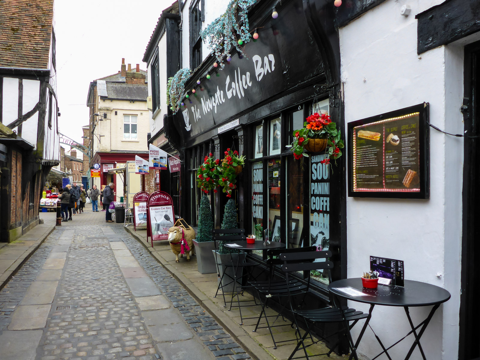 York P1020288